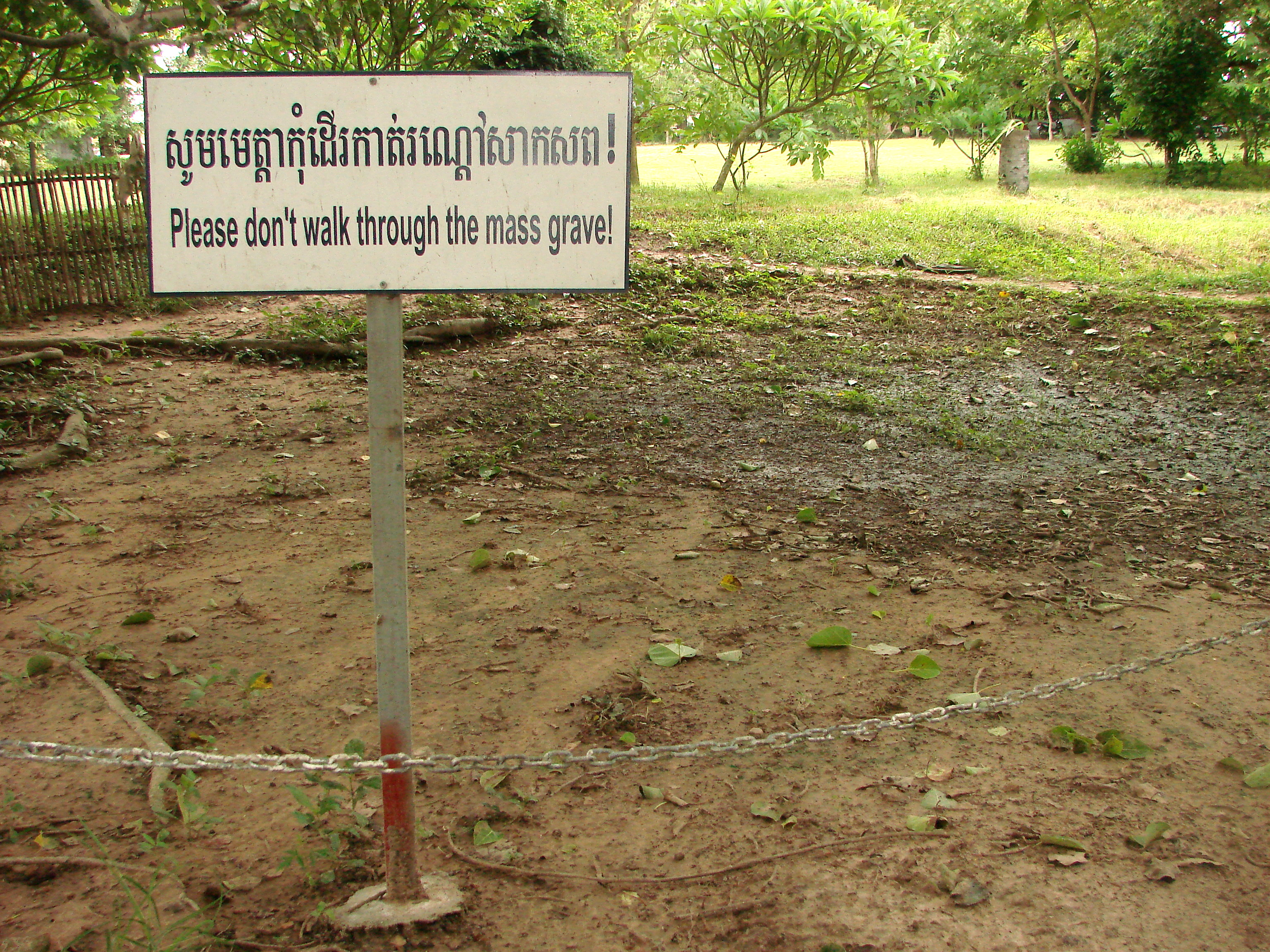 Cheung Ek Killing Fields site, near Phnom Penh, Cambodia. May 2009.